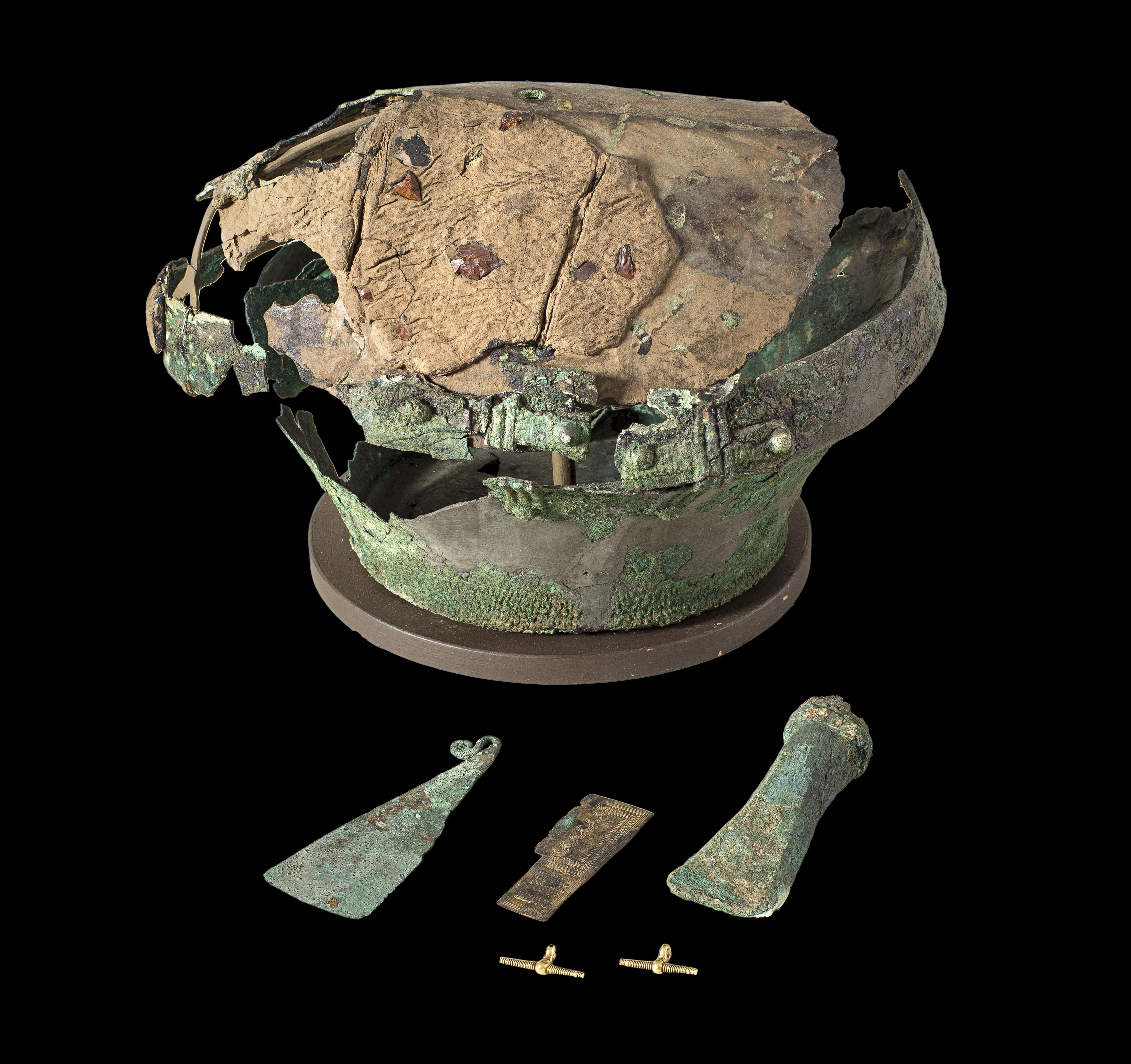 urne grave from Lusehøj, inkl. harp. and amber (26432), jar of bronze (26430), razor (26434), knife (26433)